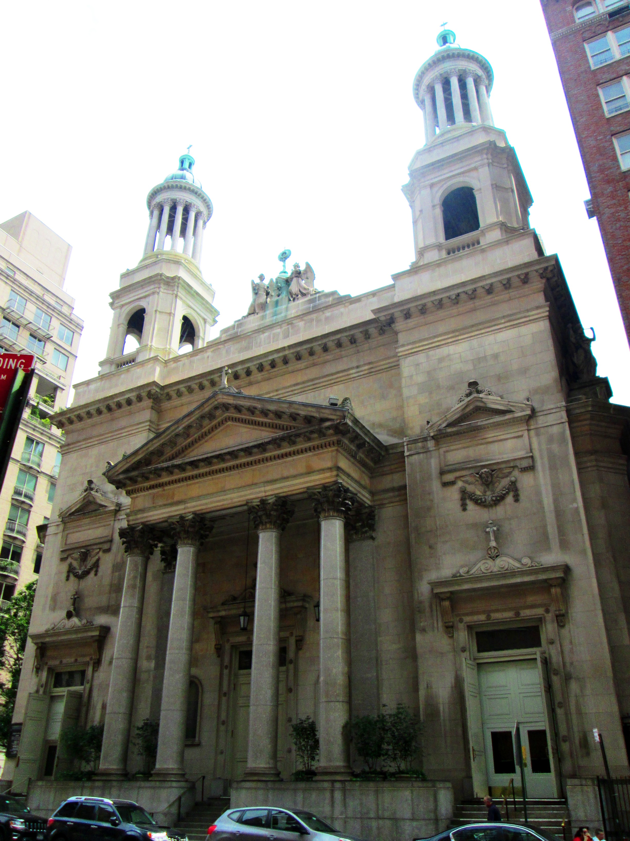 The Roman Catholic Church of St. Jean Baptiste, located at 1067-1071 Lexington Avenue (also known as 184 East 76th Street), in the Lenox Hill neighborhood of the Upper East Side, New York City, was built in 1910-13 and was designed by Nicholas Serracino, inspired by Italian Mannerism. It features a 175-foot dome. A renovation was undertaken by Hardy Holtzman Pfeifer from 1996-96 in which the somber interior was decorated in bright colors by Felix Chavez, and new stained class windows by Patrick Clark were installed. (Sources: Guide to NYC Landmarks (4th ed.), From Abyssinian to Zion (2004) and AIA Guide to NYC (5th ed.))